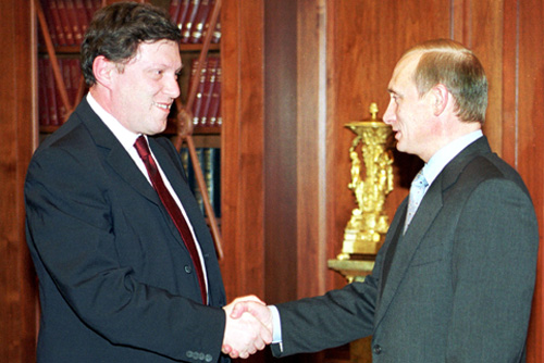 THE KREMLIN, MOSCOW. President Putin with Grigory Yavlinsky, leader of the Yabloko party in the State Duma.